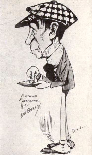 Sketch of American film director Arthur Hotaling by actor and artist Don Barclay, on page 19 of the March 2, 1918 Exhibitors Herald. Hotaling is "explaining the gentle art of throwing a custard pie."